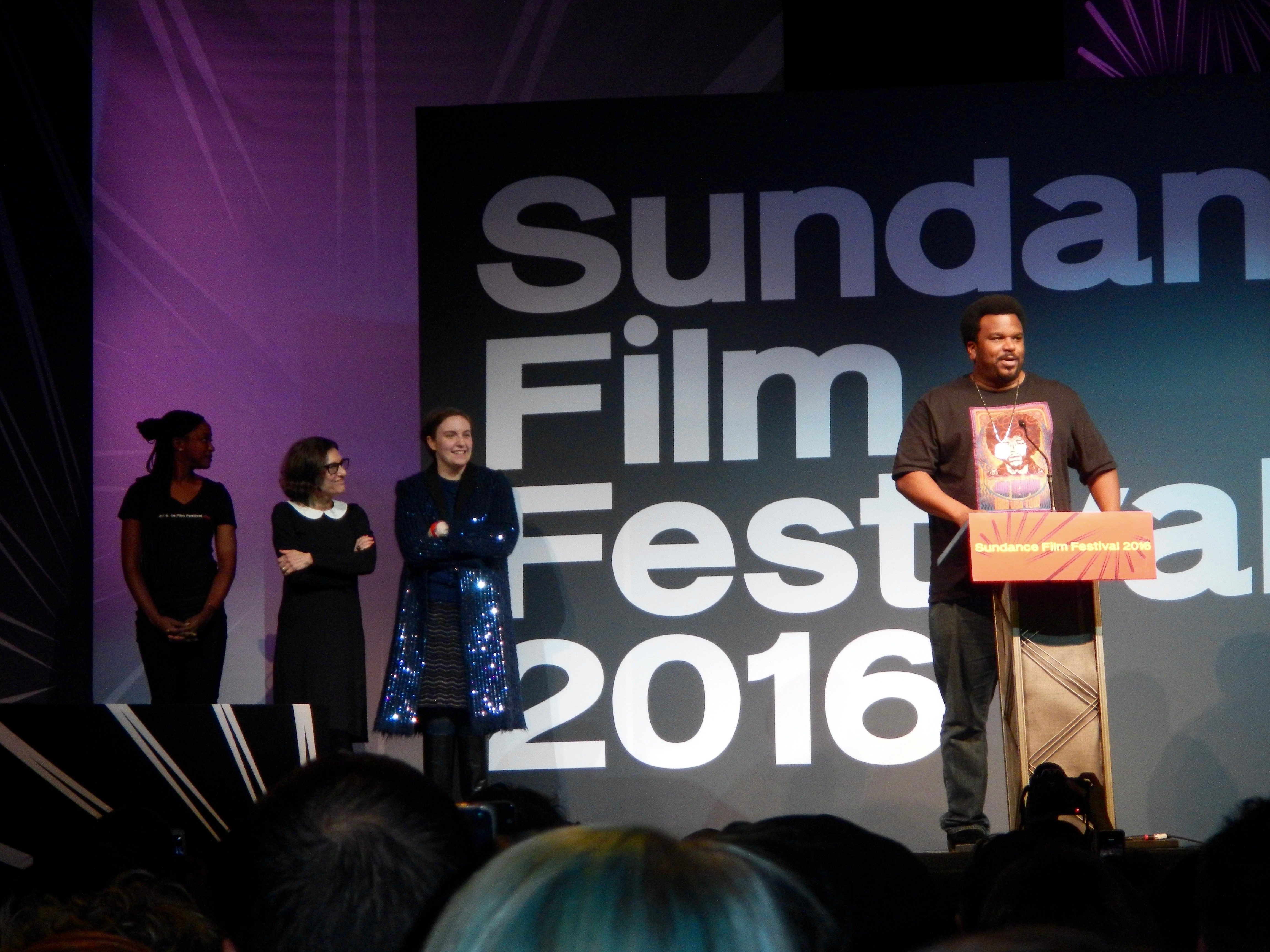 Accepting Jury Performance Award, 2016 Sundance Film Festival Awards, Park City UT